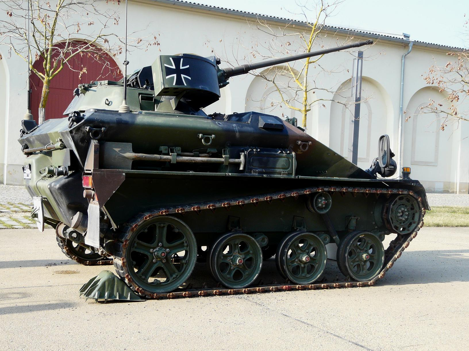 Wiesel 1 (MK 20) air-transportable armoured vehicle in the Bundeswehr Military History Museum Dresden